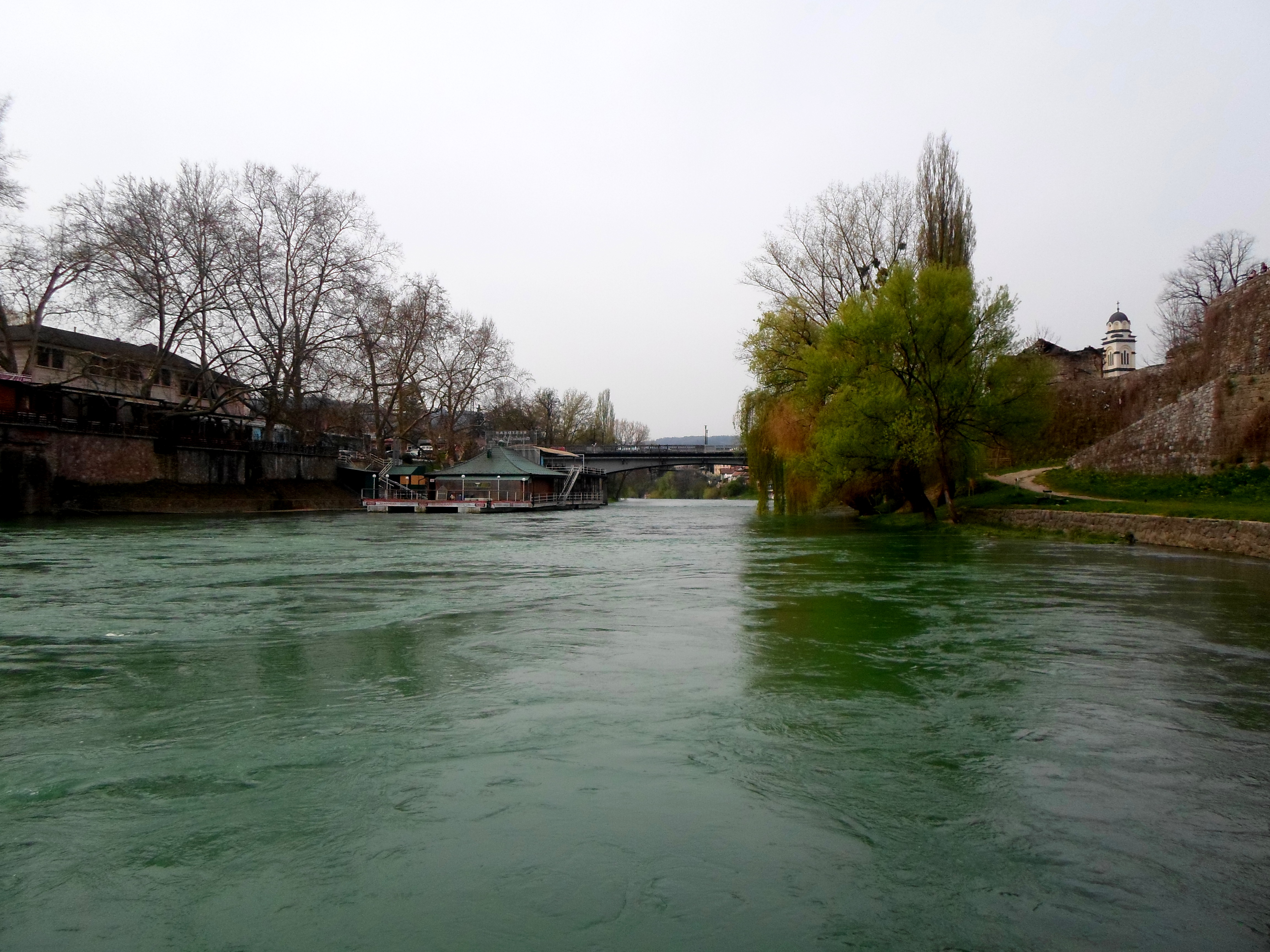 Ријека Врбас Бања Лука. This image was uploaded as part of Trace of Soul 2016.